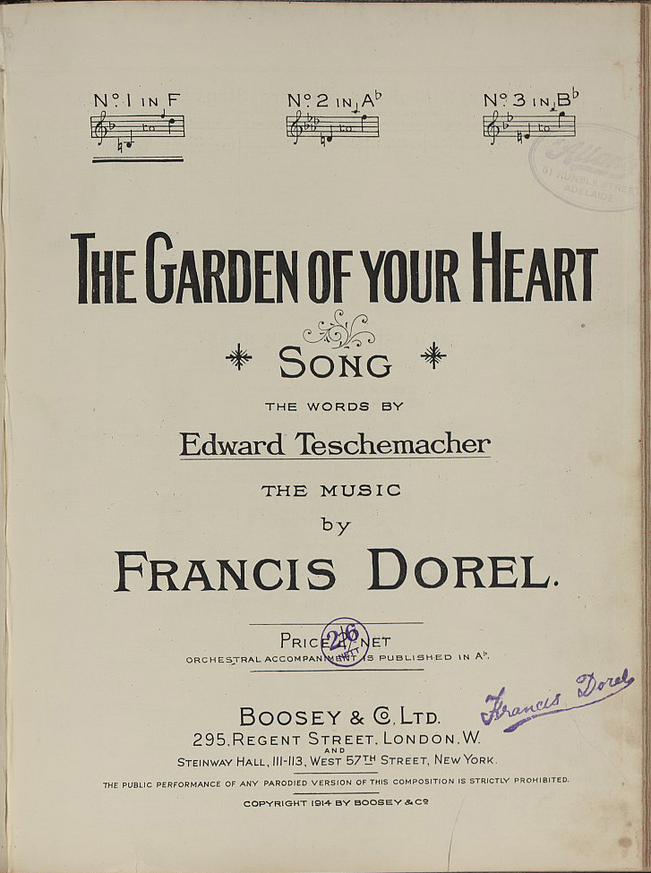 Original cover for the song "The Garden of Your heart"